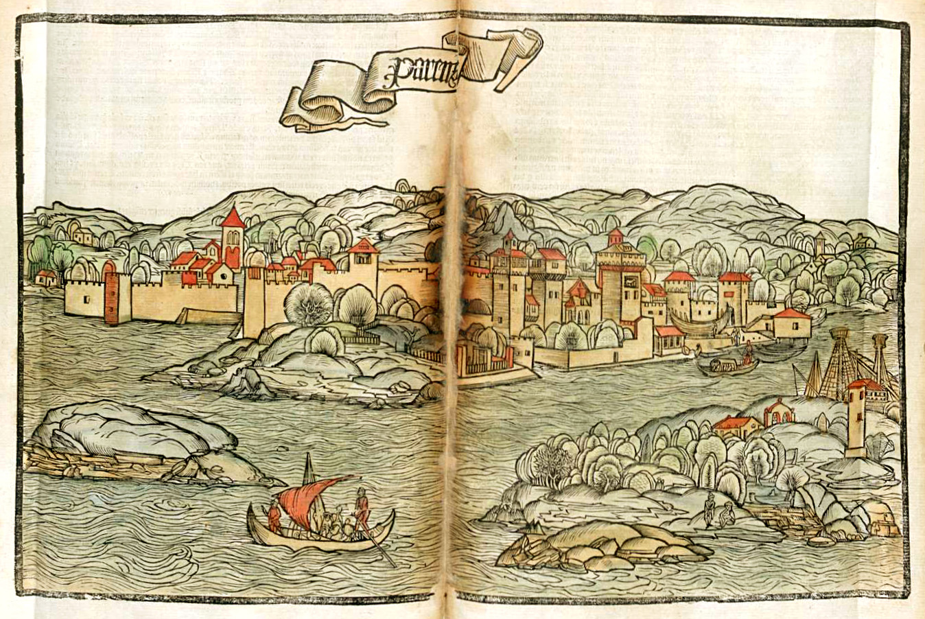 PARENS (Poreč) - from Bernhard von Breydenbach's Peregrinationes in Terram Sanctam (Journey to the Holy Land) - Drach's 3rd latin edition, Speyer 1502 Format: 39,4 x 25,4 cm (1 section) Woodcut